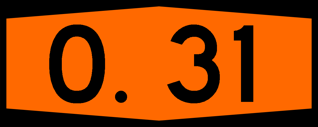 Sign of 31 Otoyol